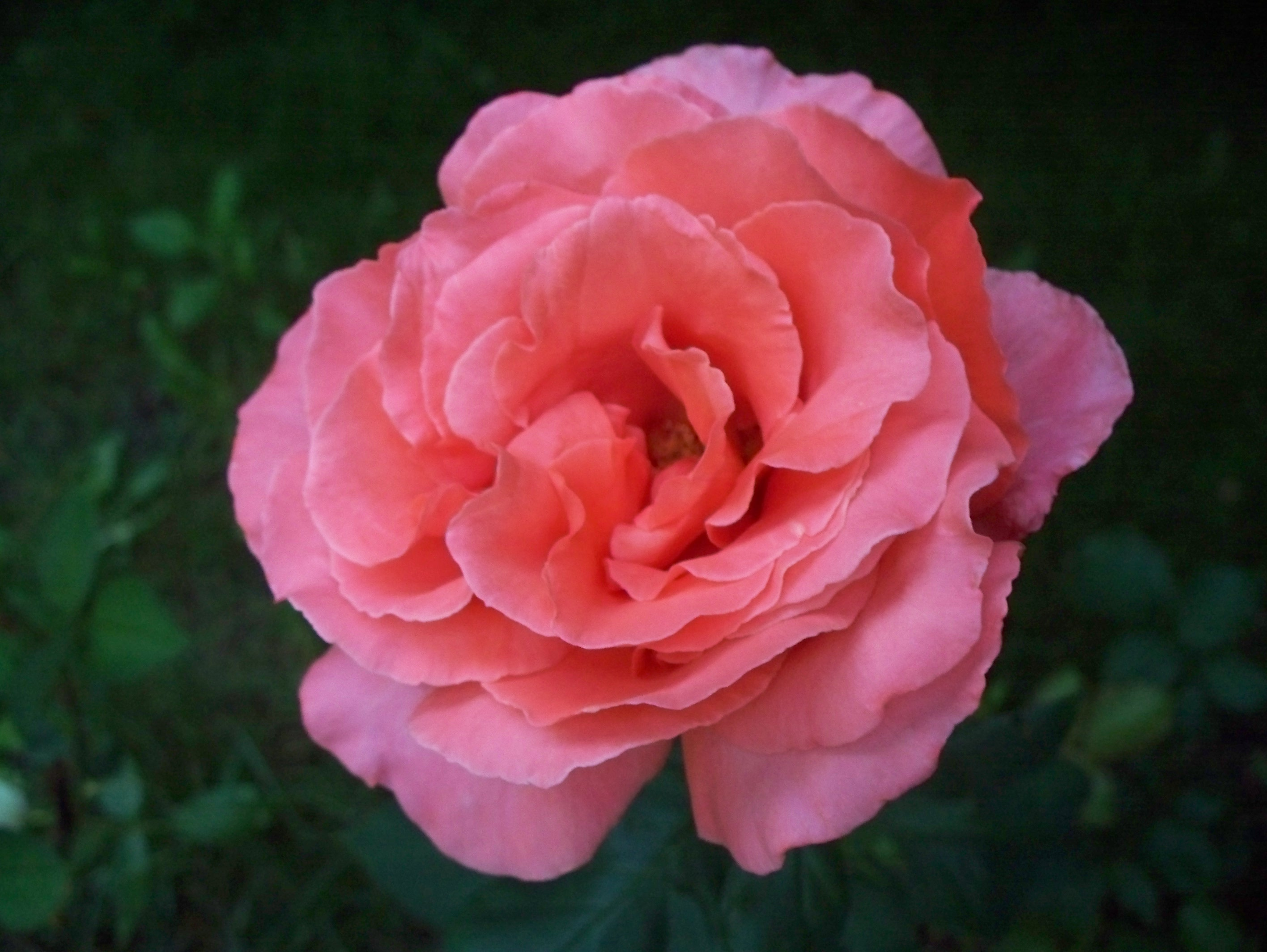 Closeup of a pink rose in full bloom.